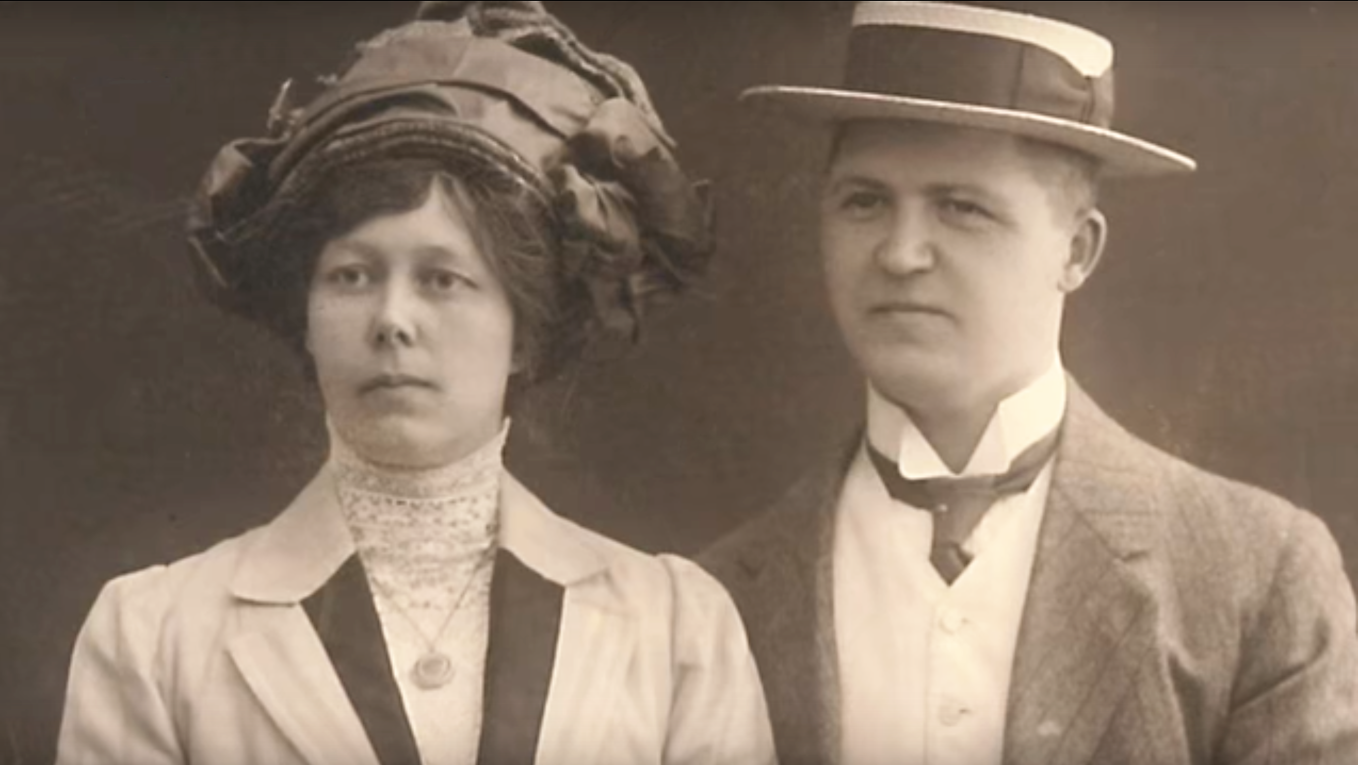 Wedding photograph of Ina Boudier-Bakker and Henry Boudier